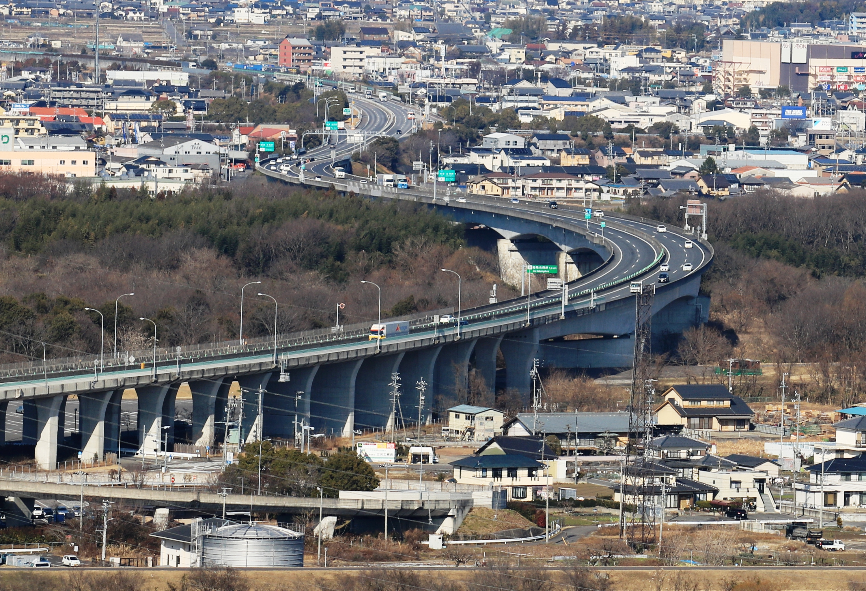 Kisogawahoppagawa Bridge over Kiso River and Gifu-Kakamigahara interchange seen from Twinarch138 in Gifu prefecture, Japan.